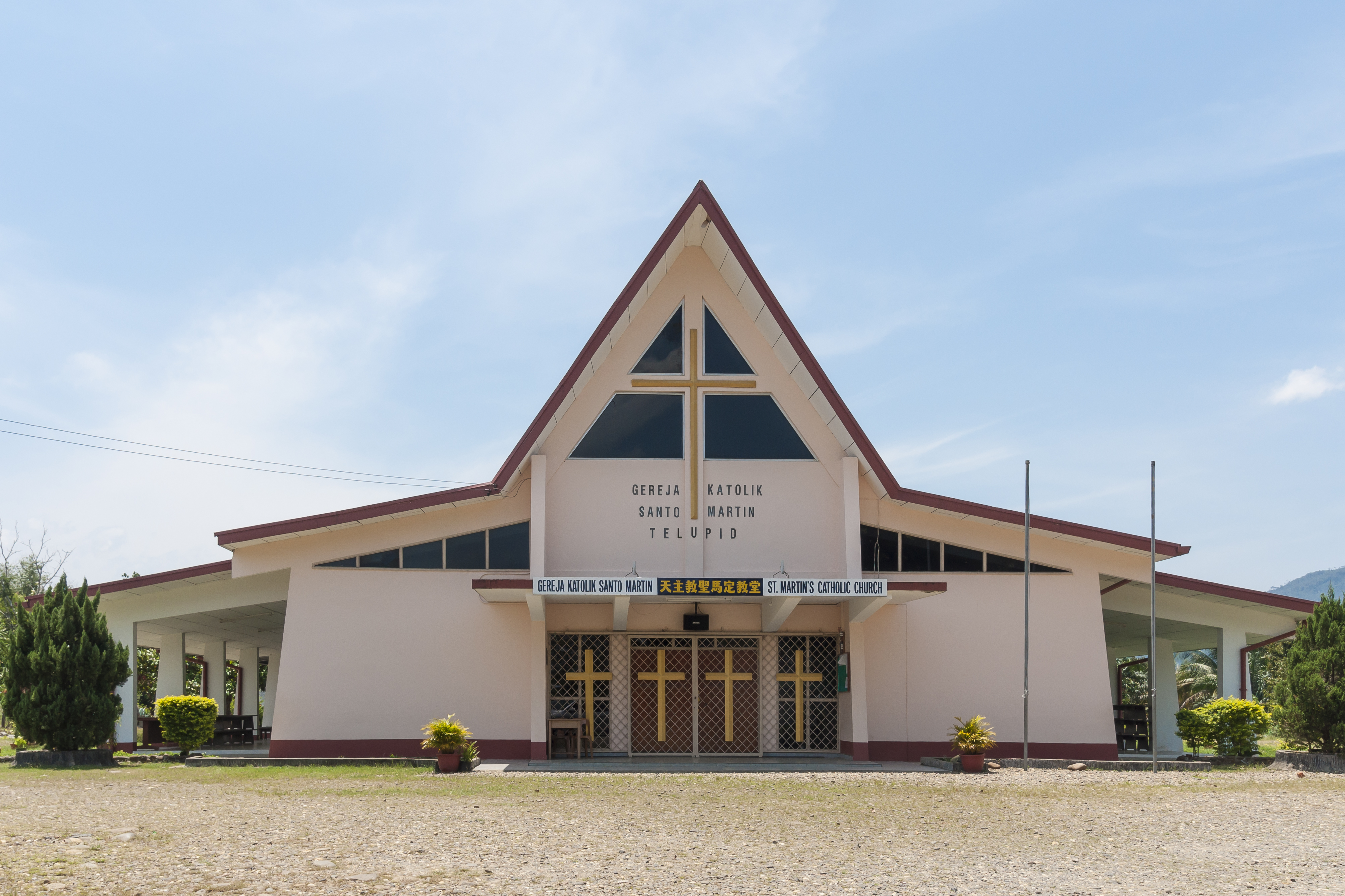 Telupid, Sabah, Malaysia: St. Martin's Catholic Church